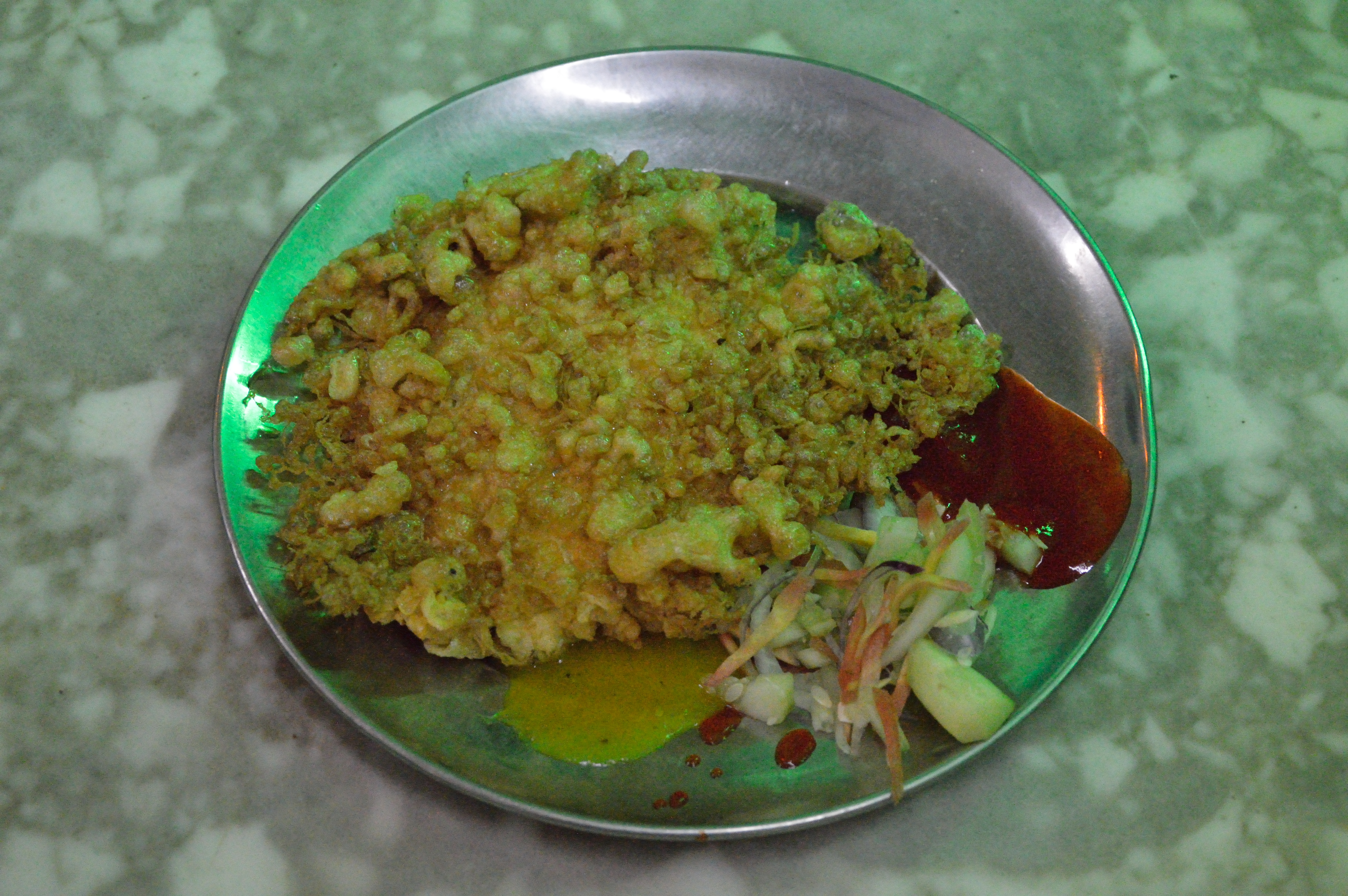 Chicken Kabiraji Cutlet is an egg mixed with water is dropped on top of the frying cutlet. It is Bengali pronunciation of a "Coverage or Cover:Egg" Cutlet, influenced by the British. Photographed in Kolkata.